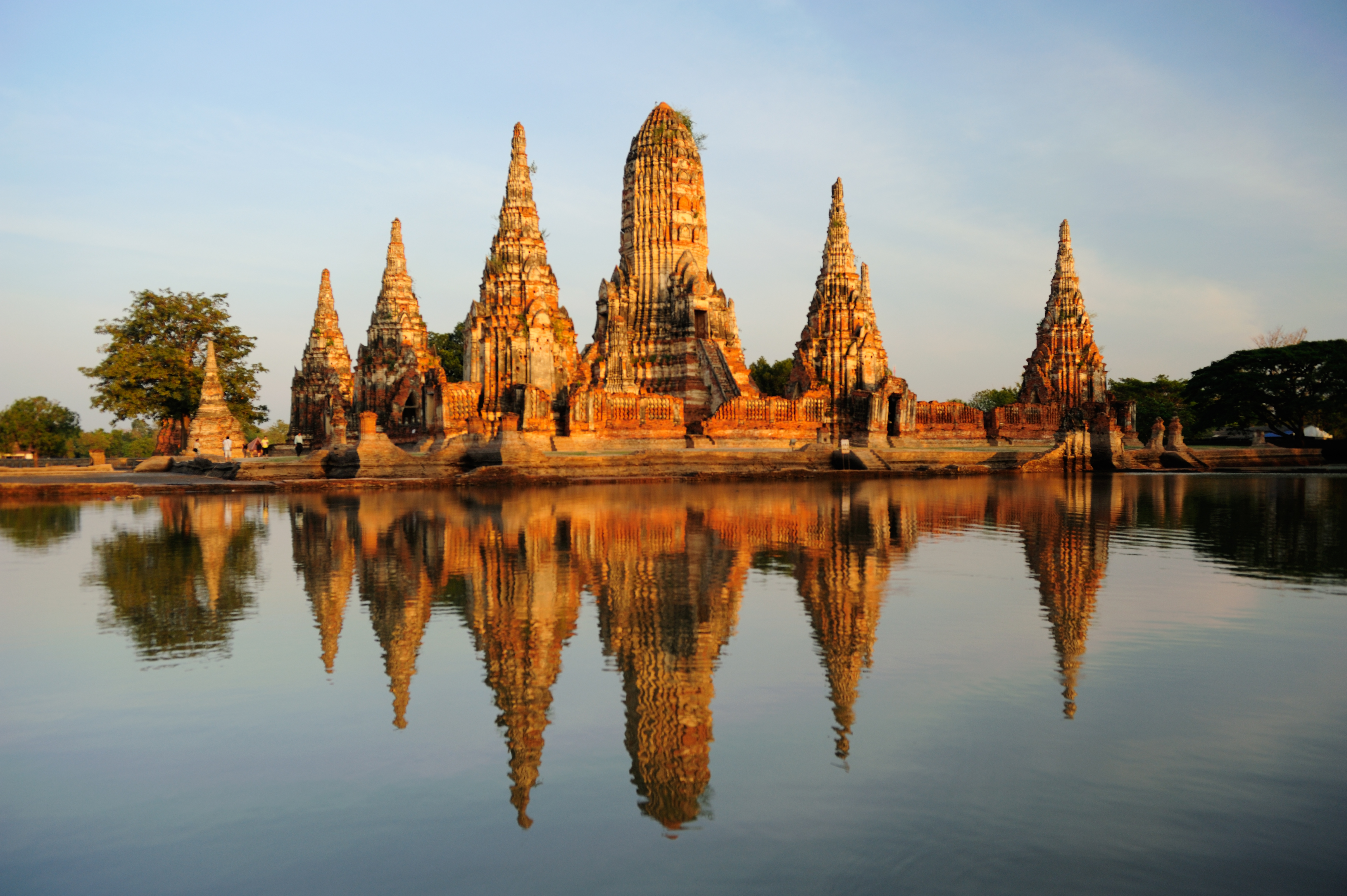 Wat Chai Watthanaram (วัดไชยวัฒนาราม, "Temple of Increasing Victory"), Phra Nakhon Si Ayutthaya Province.